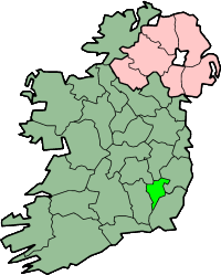 County Carlow map 08:02, 5 February 2004 Morwen 200x249 (30692 bytes) (map)